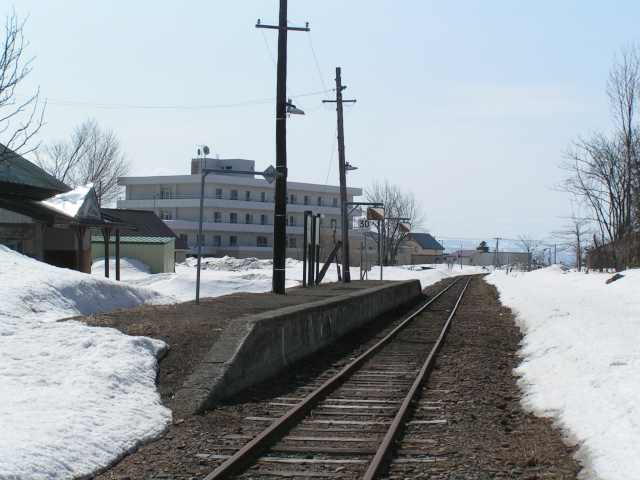 The platform in Shintotsukawa Station in Sasshou Line, Japan